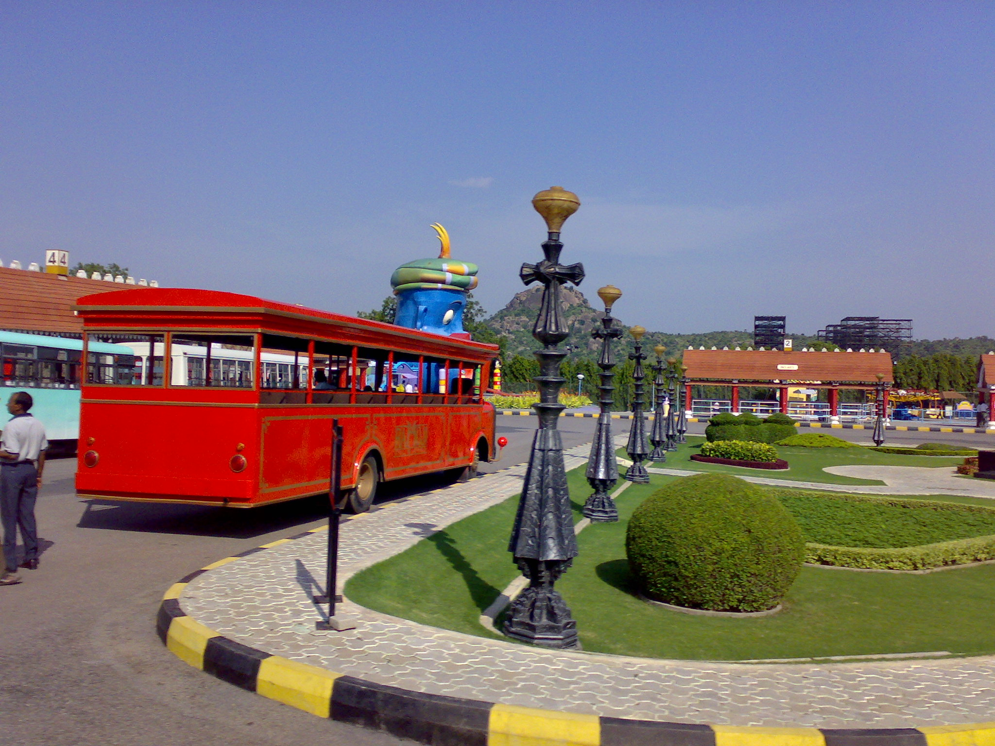 Ramoji Film city: a special bus which takes visitors around for sightseeing.